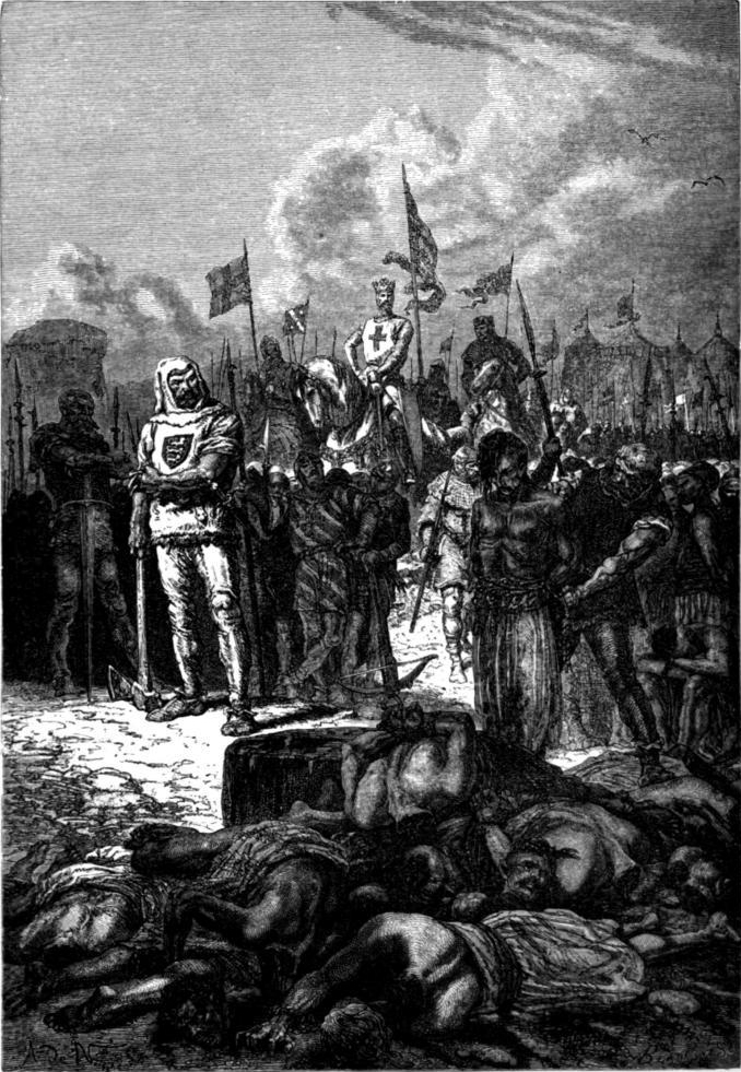 Richard Çœur de Lion Having the Saracens Beheaded